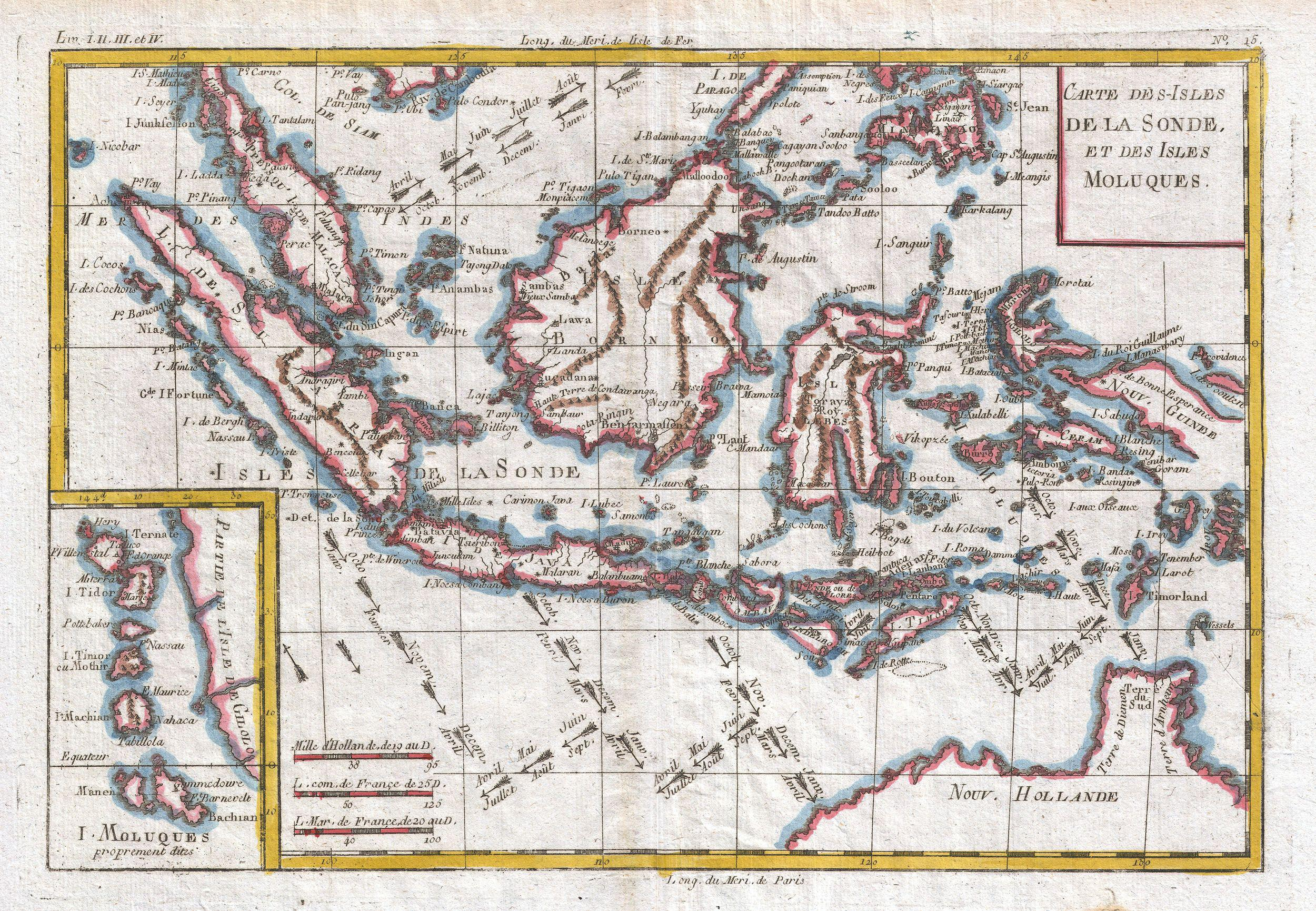 A fine example of Rigobert Bonne and Guilleme Raynal’s 1780 map of the East Indies. Covers from the Malay peninsula to Australia inclusive of Sumatra, Java, Singapore, Borneo, New Guinea, and northern Australia (Nouv. Holland). Identifies the strait of SinCapura, but mot the Island of Singapore. The southern shores of New Guinea are only partially explored and here have been left blank. Arrows in the seas show the important trade winds that facilitated commerce in this region from the earliest antiquity. Includes detailed inset of Moluccas in lower left quadrant. Highly detailed, showing towns, rivers, and some topographical features. Drawn by R. Bonne for G. Raynal’s Atlas de Toutes les Parties Connues du Globe Terrestre, Dressé pour l'Histoire Philosophique et Politique des Établissemens et du Commerce des Européens dans les Deux Indes .